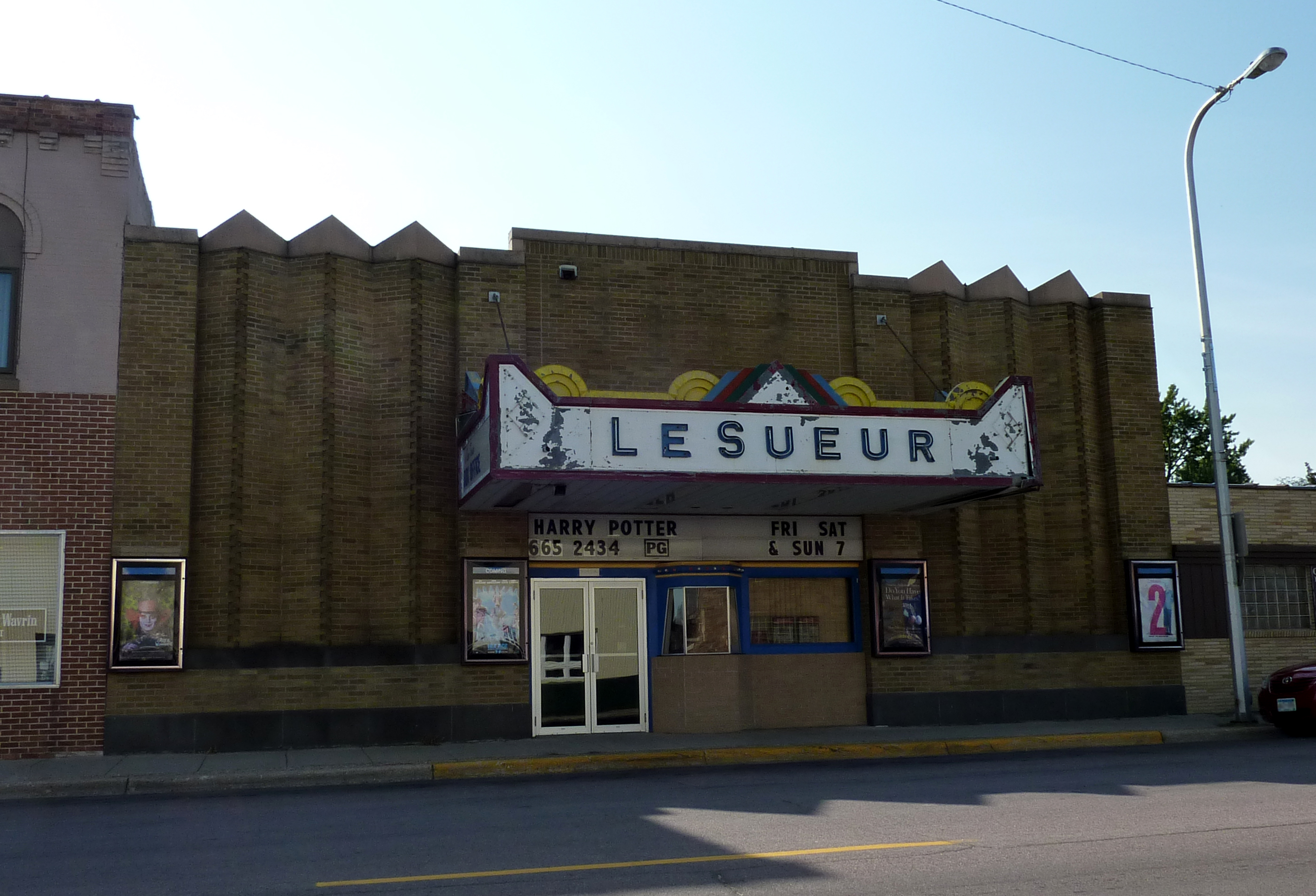 Le Sueur Theater, Le Sueur, Minnesota, USA.